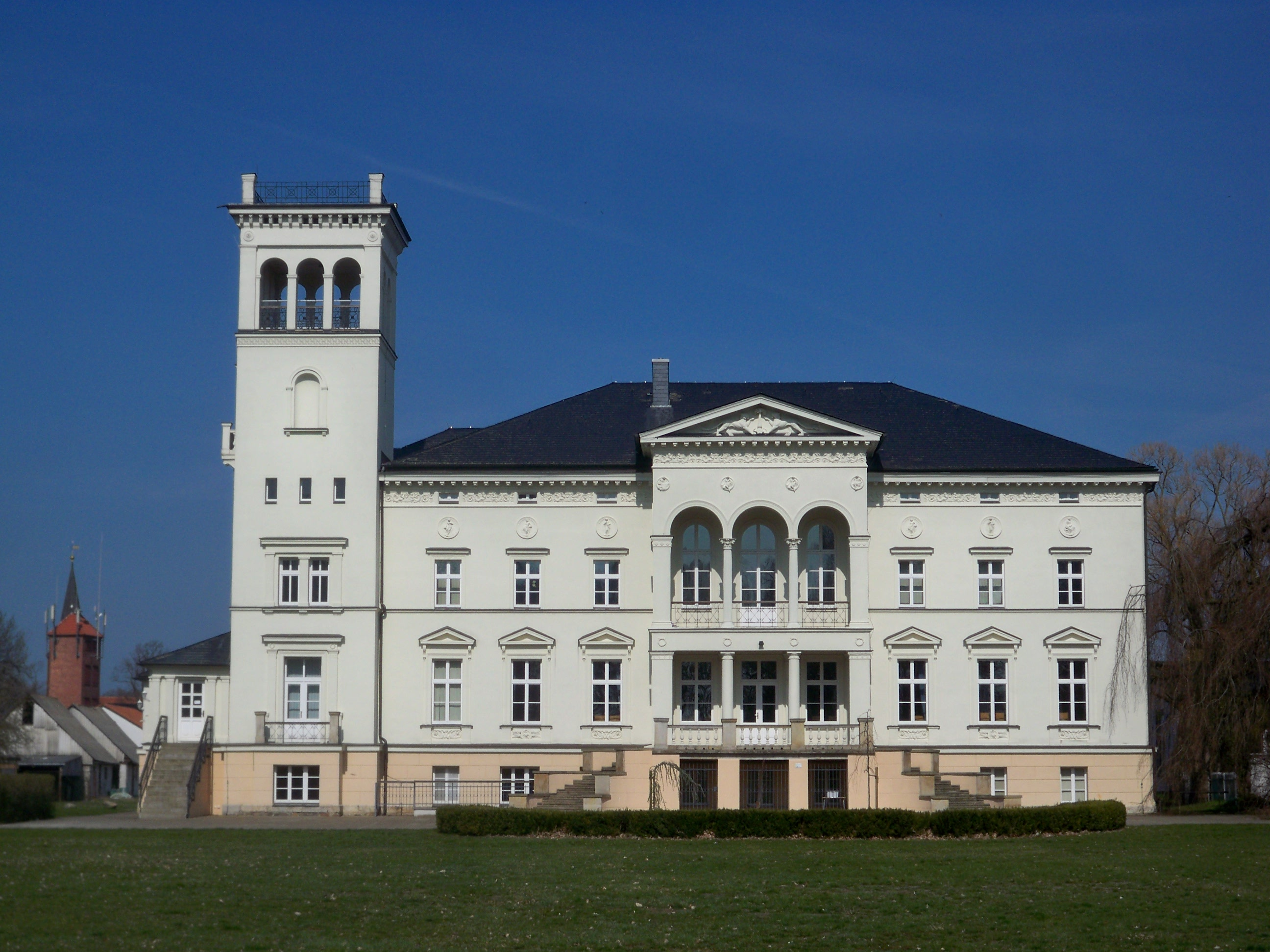 Kunrau, Klötze municipality, Saxony-Anhalt, castle (rear view)